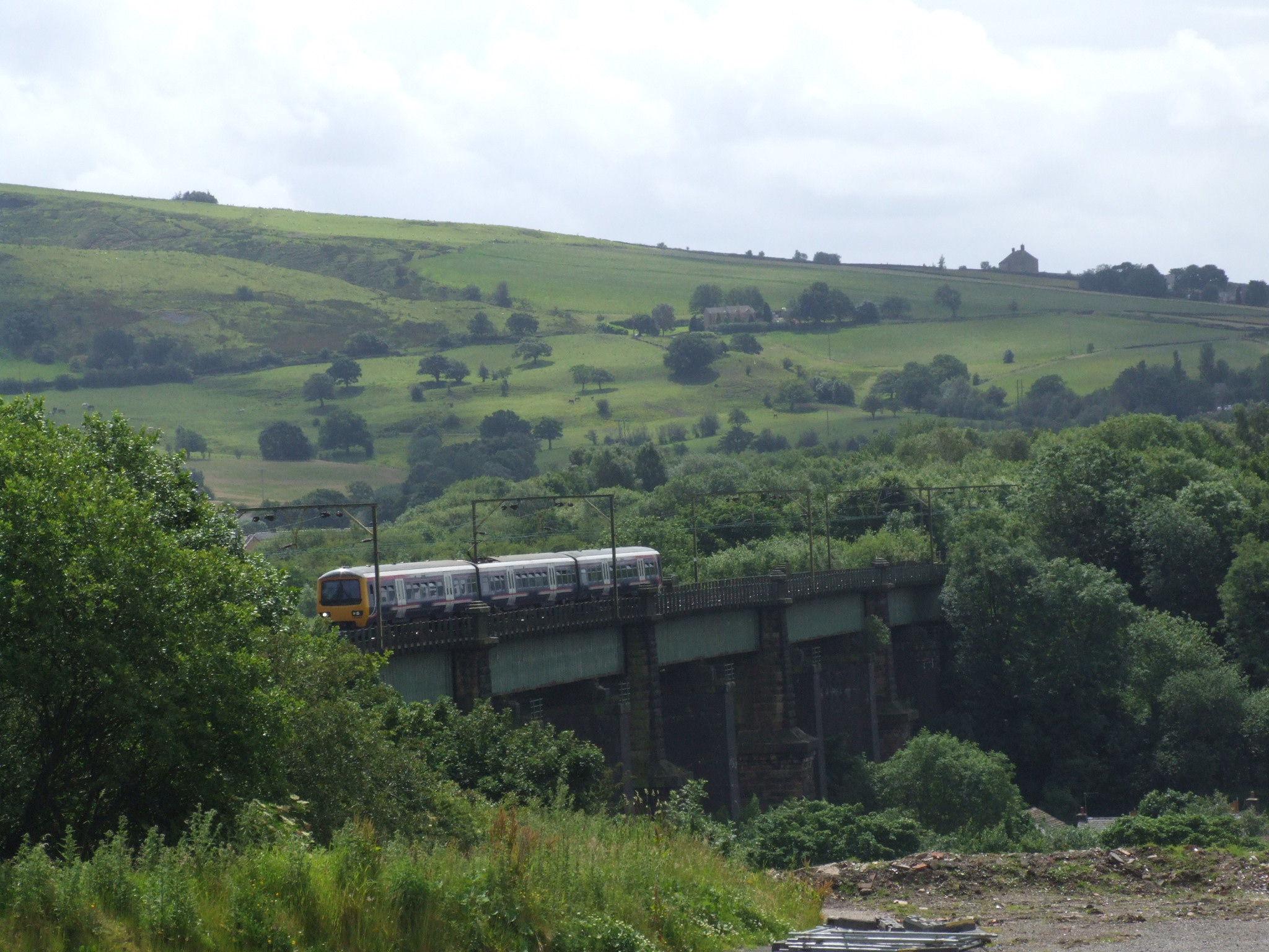 Dinting is near Glossop, Derbyshire. It is known for the railway junction and viaduct, and Dinting Vale Printworks. Dinting Viaduct from the west (with train).